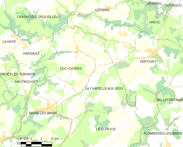 Map of French municipality La Chapelle-aux-Bois